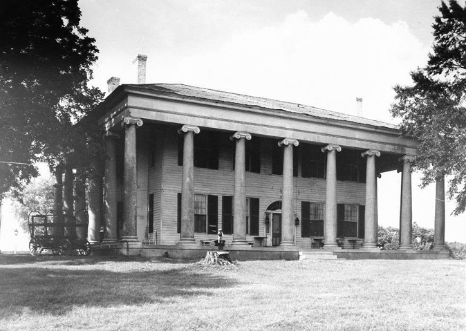 Forks of Cypress ruins — a Greek Revival plantation house near Florence in Lauderdale County, Alabama. Location: Savannah Road (Jackson Road), Florence vicinity, Lauderdale County, AL. FRONT ELEVATION. (House was destroyed by a fire in 1966.) Also known as "Forks of the Cypress" and the Jackson Dowdy Plantation. Image: HABS—Historic American Buildings Survey of Alabama